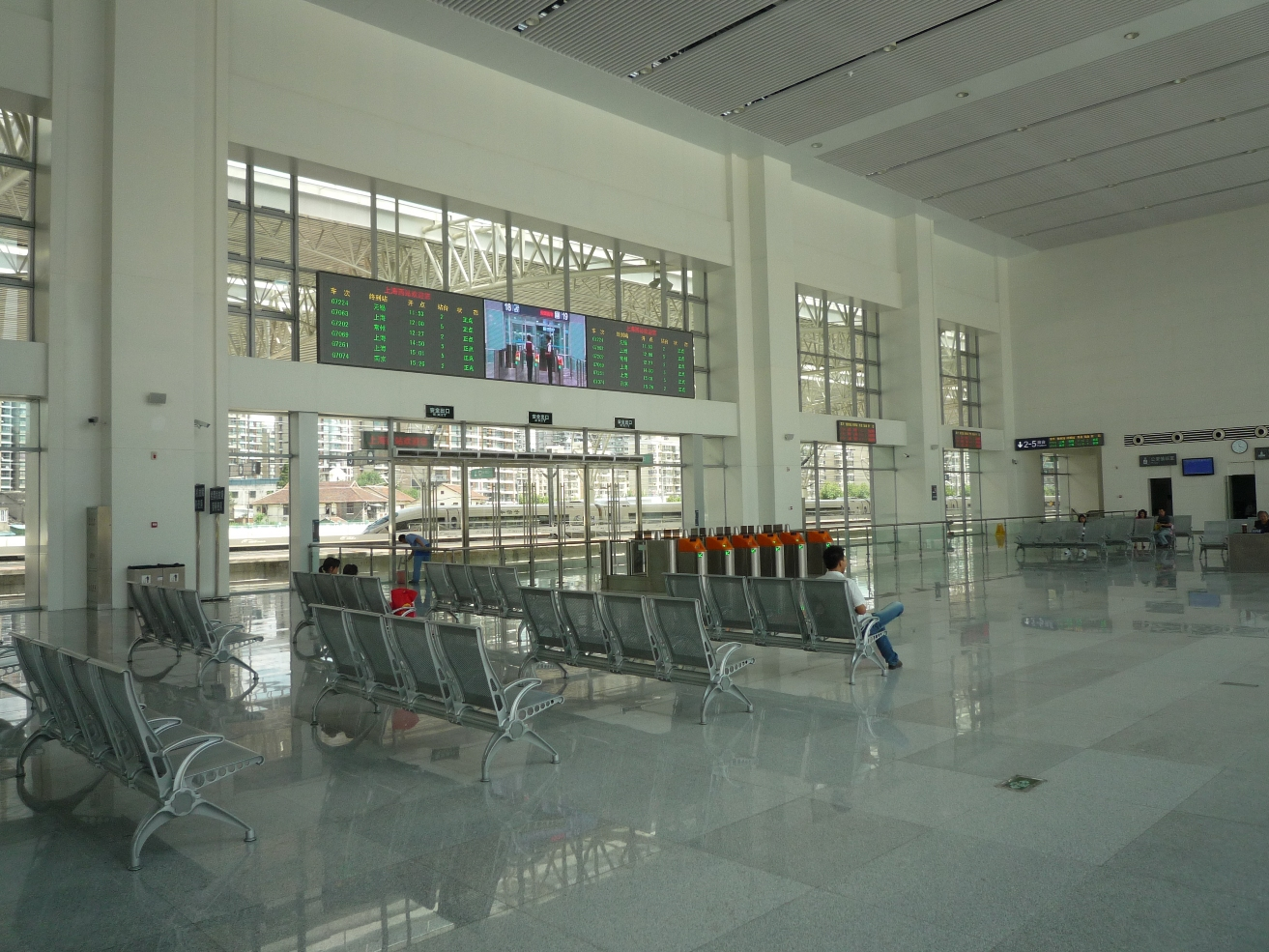 West Shanghai railway station waiting room